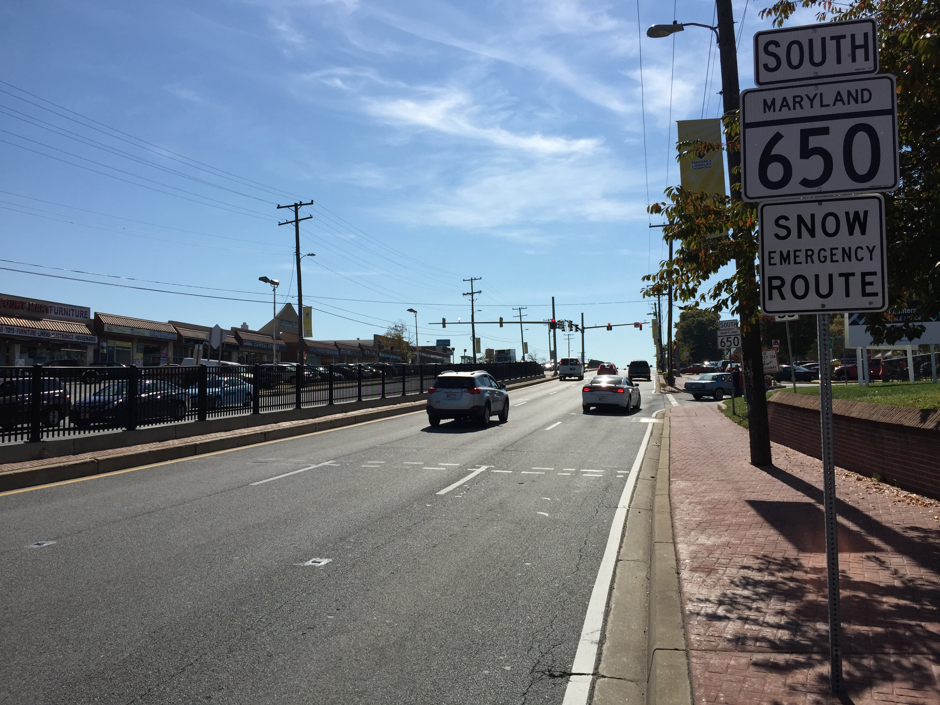 View south along Maryland State Route 650 (New Hampshire Avenue) at Maryland State Route 193 (University Boulevard) in Takoma Park, Montgomery County, Maryland